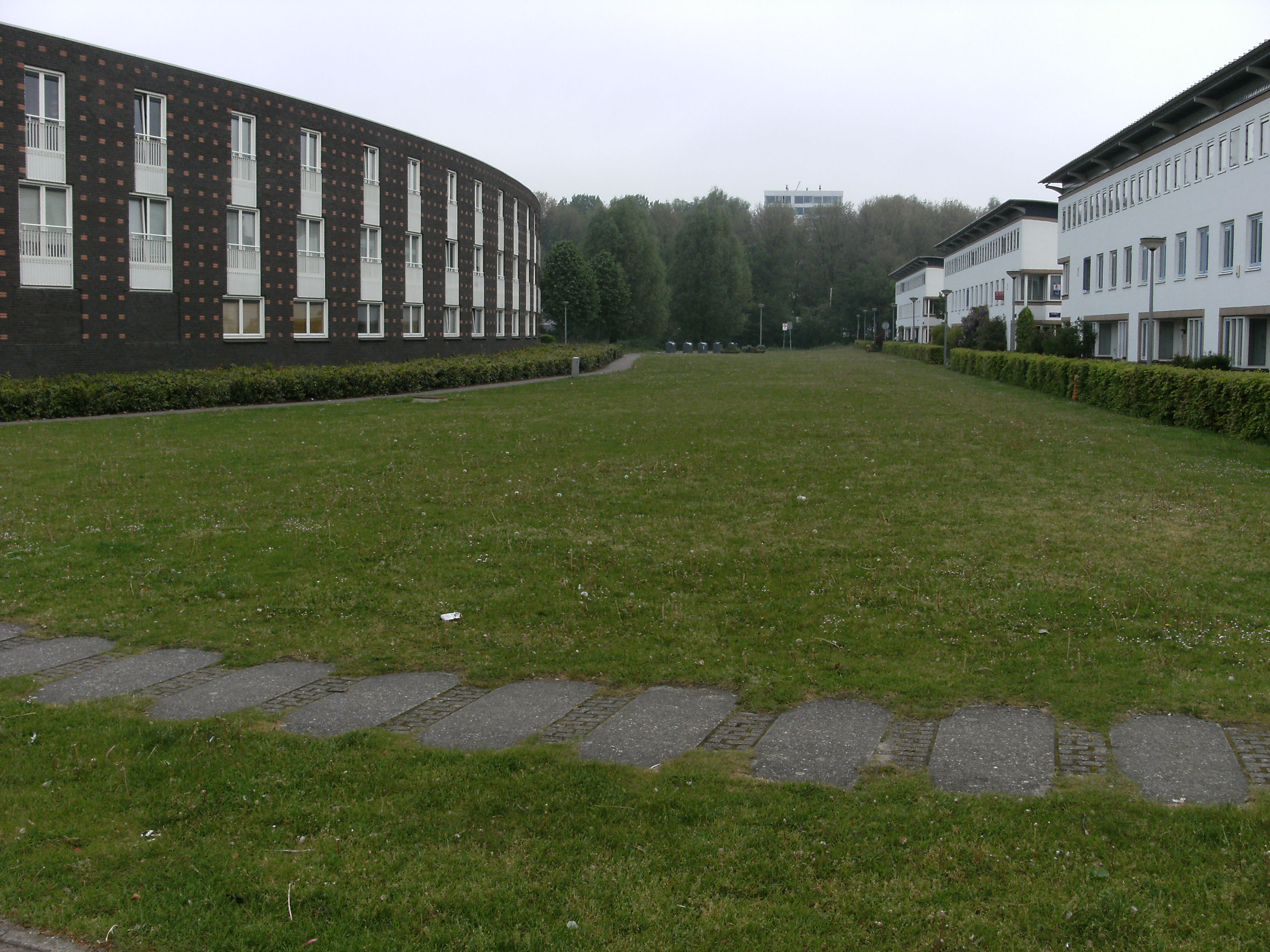 Park in Nieuw Sloten, Amsterdam Nieuw-West